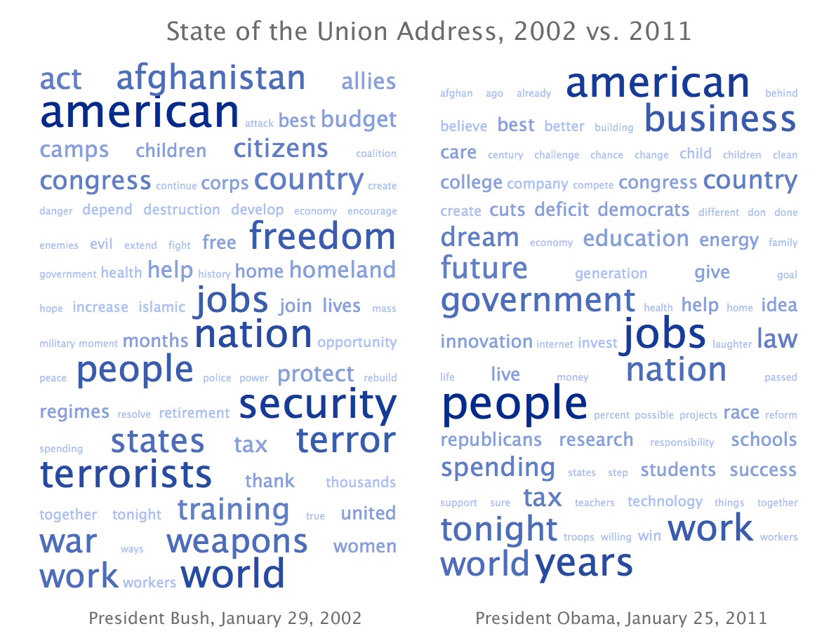 Word cloud comparison of two State of the Union speeches by two U.S. presidents: President Bush on January 29, 2002 and by President Obama on January 25, 2011.